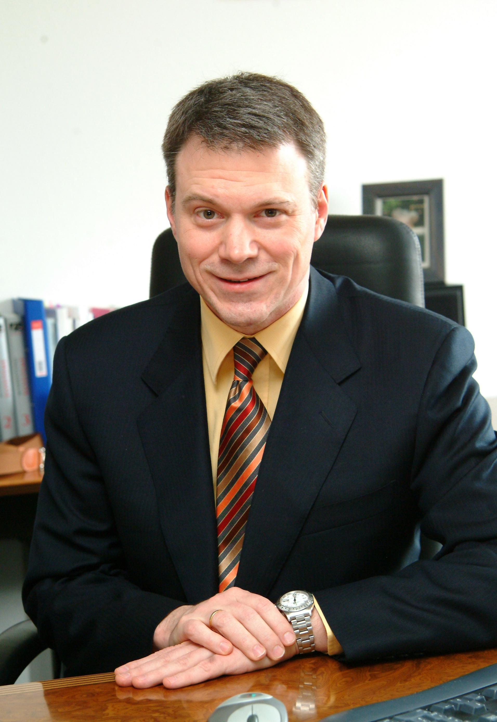 Christopher Mattheisen - Chairman of the Board and Chief Executive Officer